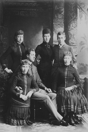 Queen Alexandra with her children